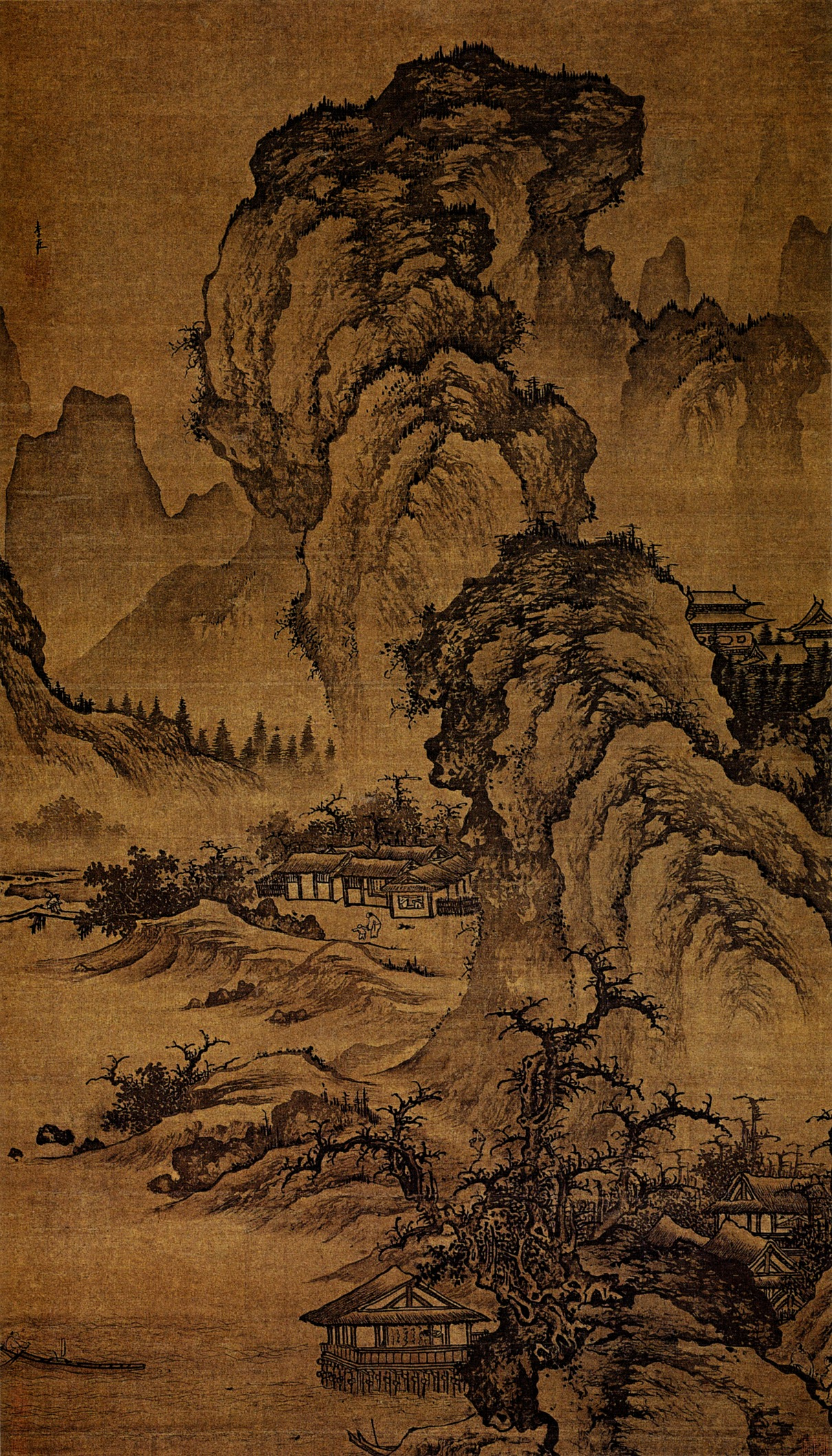 Mountain Hamlet, hanging scroll, Ink on silk, 135 x 76 cm. Located at the Palace Museum, Beijing.